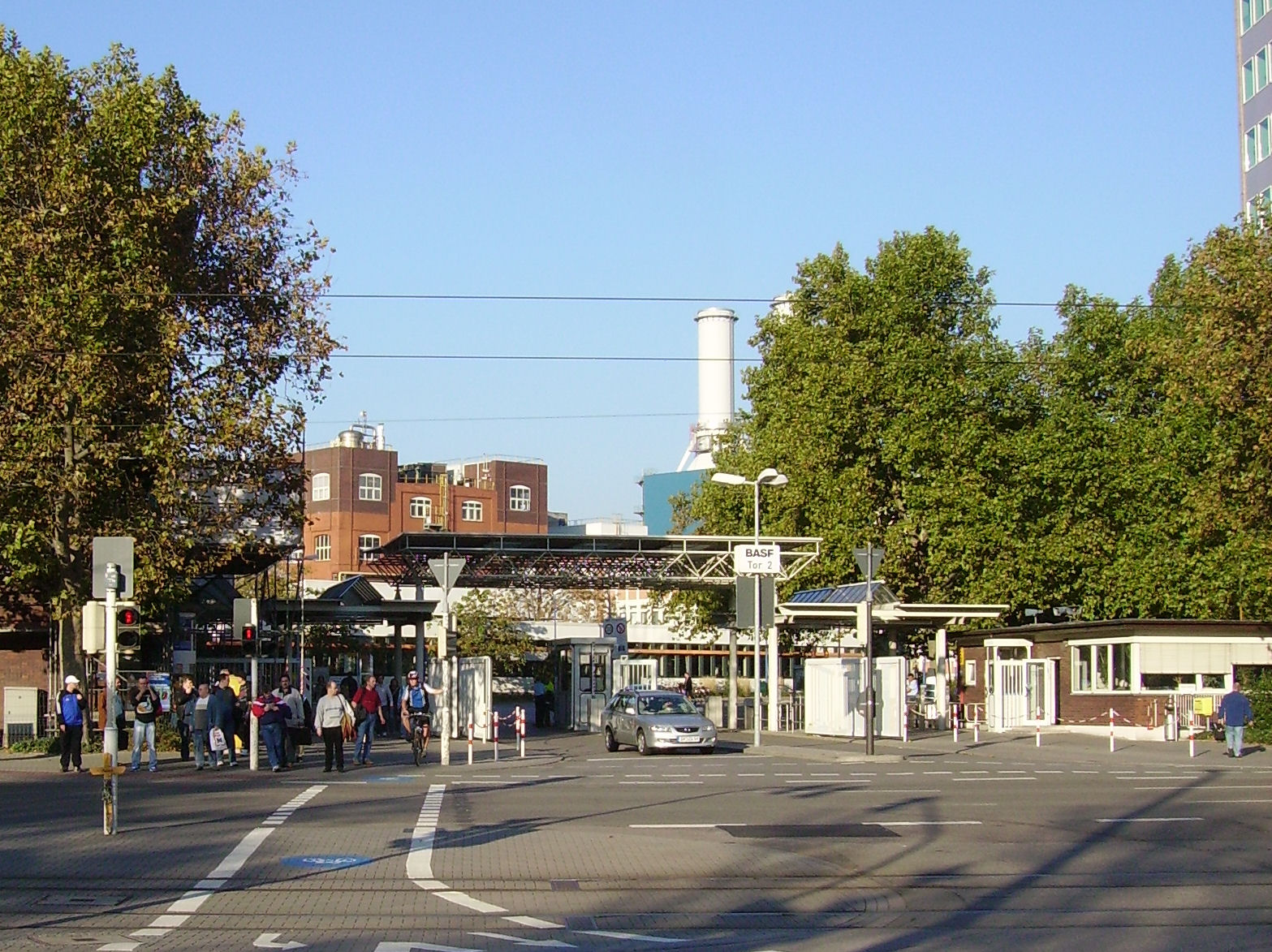 gate 2 of the BASF chemical company in Ludwigshafen in Rhineland-Palatinate (Germany)